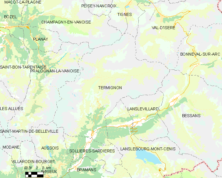 Map of French municipality Termignon